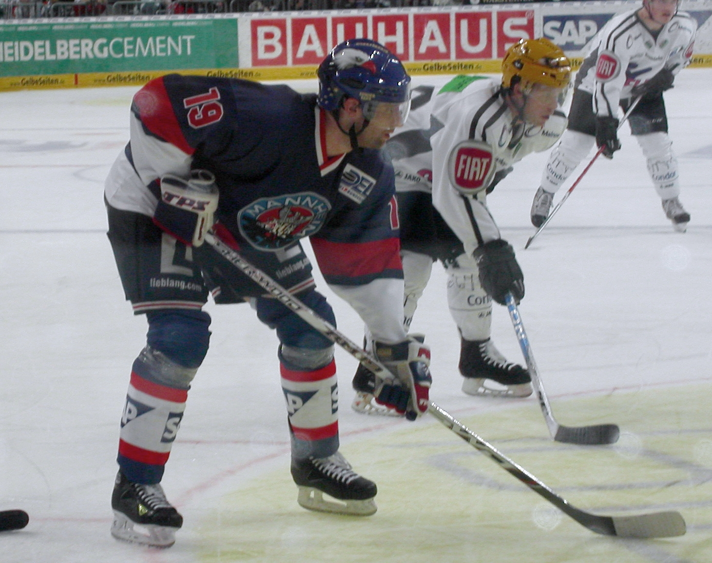 Colin Beardsmore, Ice Hockey Player, Forward, Adler Mannheim